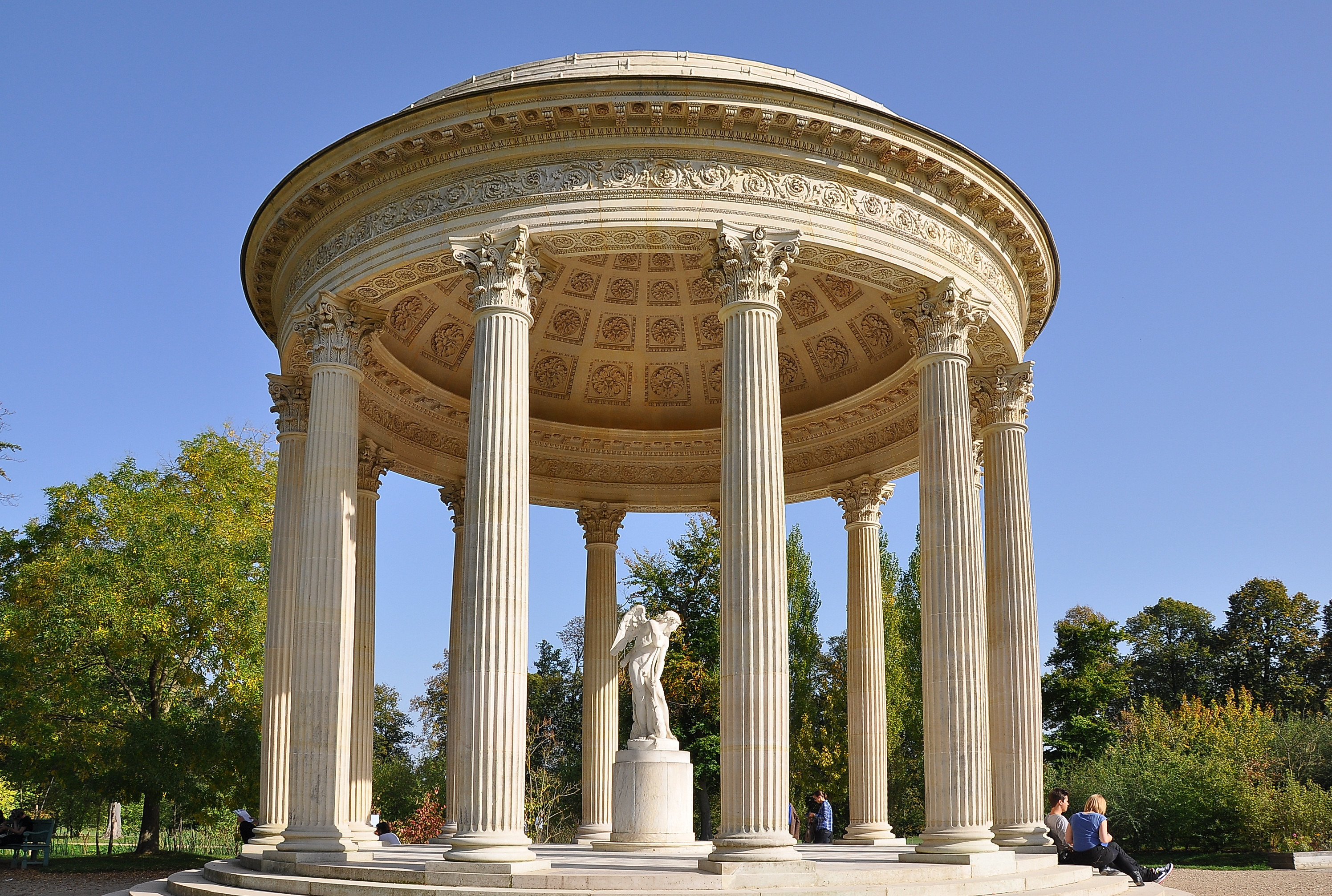 Temple of Love in the gardens of the Petit Trianon at Gardens of Versailles in Versailles, department of Yvelines in France.